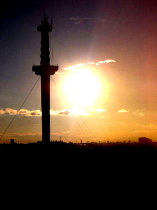 The Interama space needle at the Buenos Aires "Parque de la Cuidad" (a municipal amusement park)